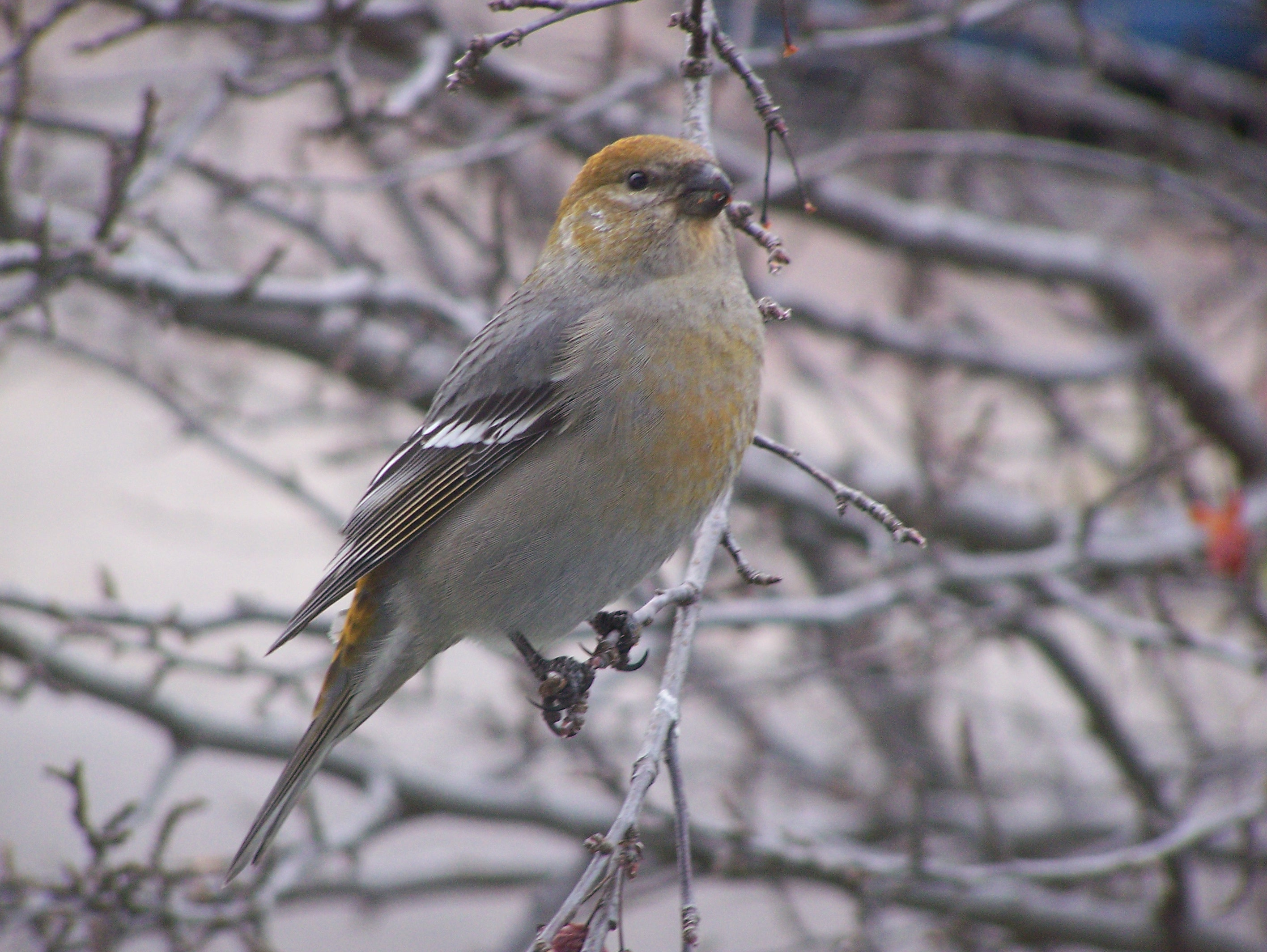 Pine Grosbeak